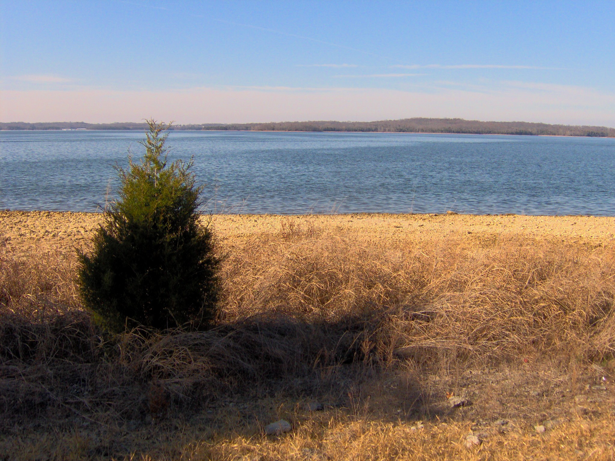 The shores of the J. Percy Priest Lake impoundment of Stones River near Nashville, Tennessee, located in the southeastern United States. The point is located just off the Volunteer Trail, near the Bakers Grove section.